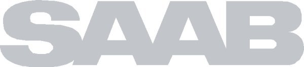 Saab "wordmark"